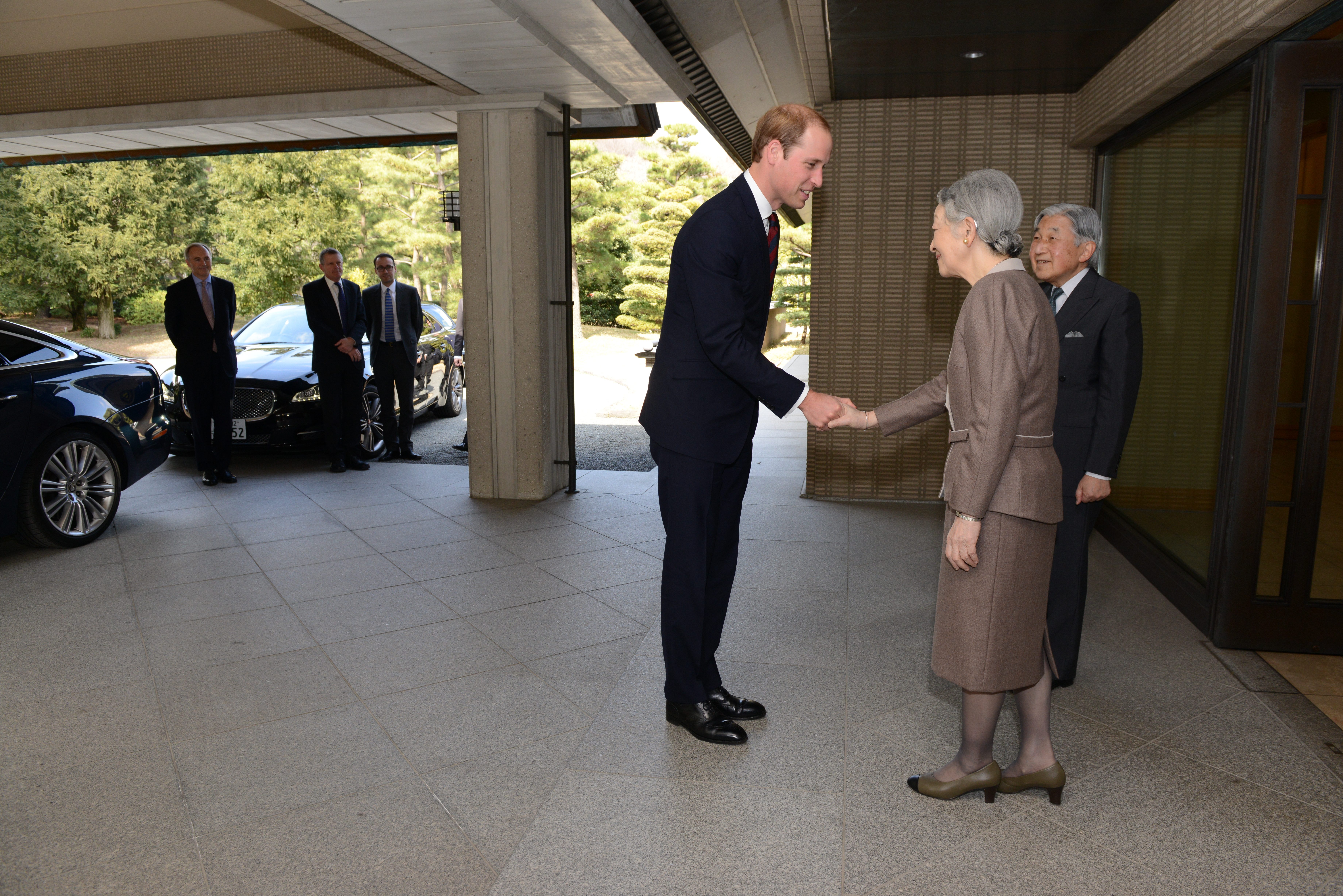 Prince William met Emperor Akihito and Empress Michiko at the Imperial Residence in Chiyoda Ward, Tōkyō Metropolis on February 27, 2015.